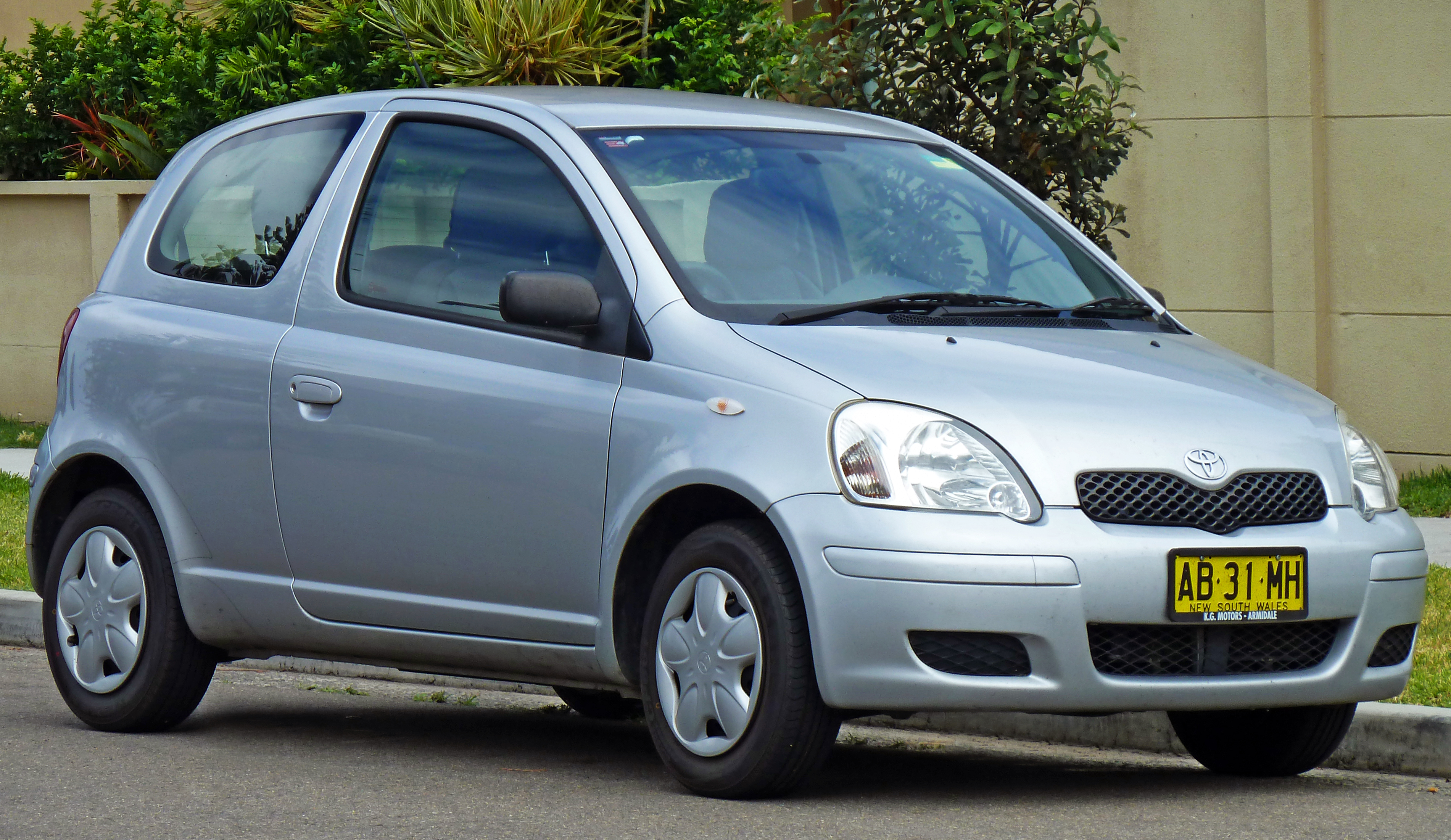 2003–2005 Toyota Echo (NCP10R) 3-door hatchback. Photographed in Monterey, New South Wales, Australia.